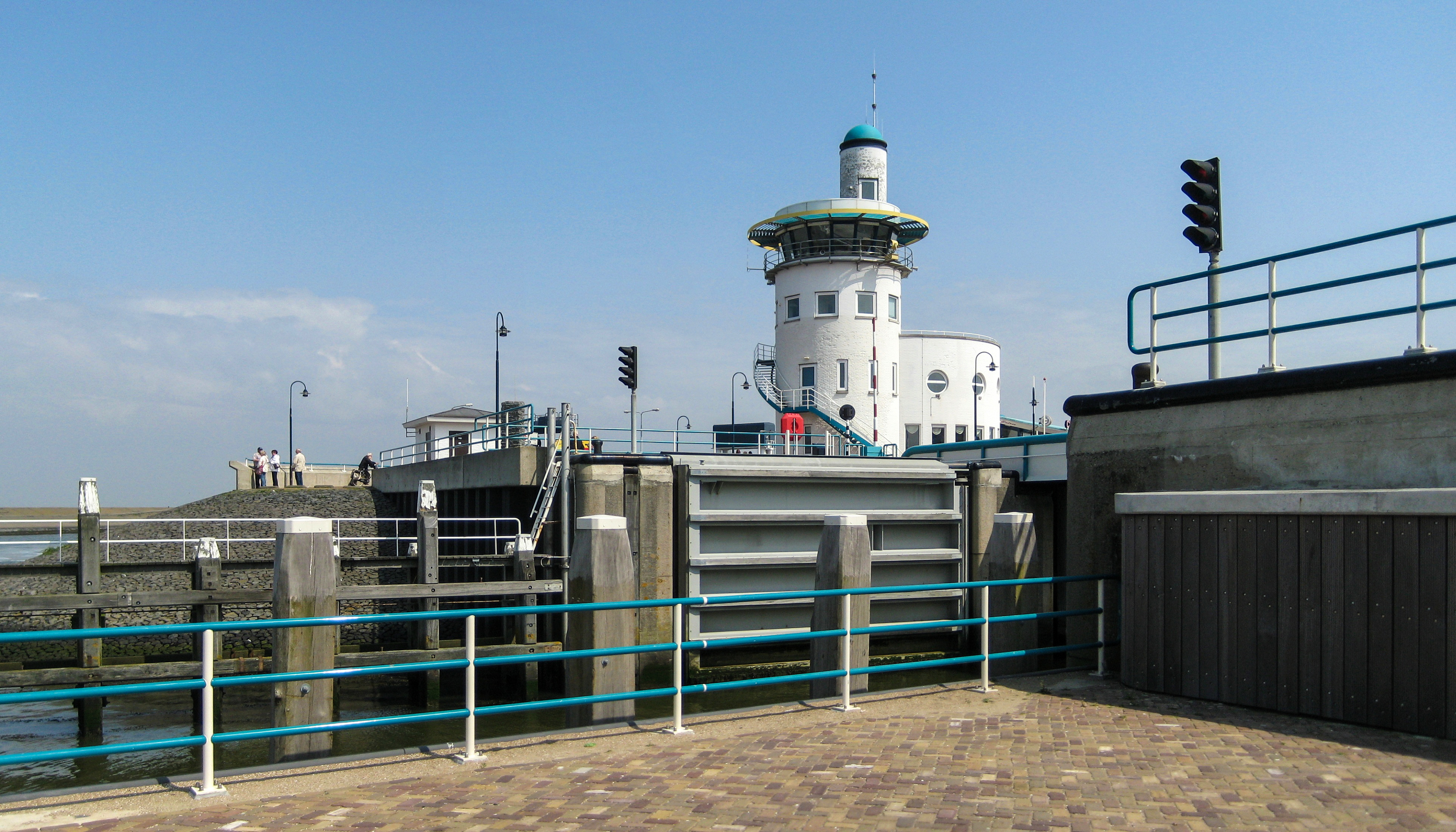 Canal lock and port authority control tower of Harlingen, a city in the Dutch province of Fryslân.